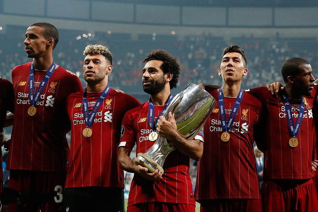 Liverpool vs. Chelsea, 2019 UEFA Super Cup